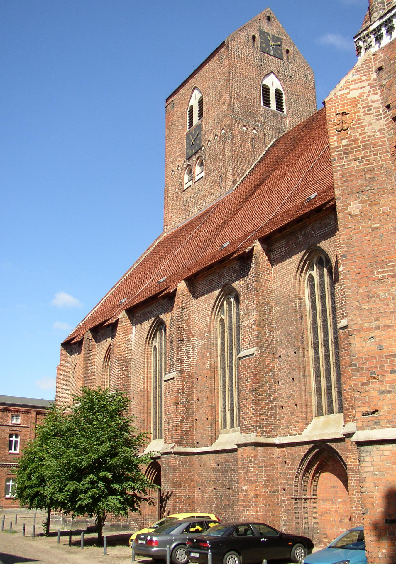 St. George's church in Parchim in Mecklenburg-Western Pomerania, Germany